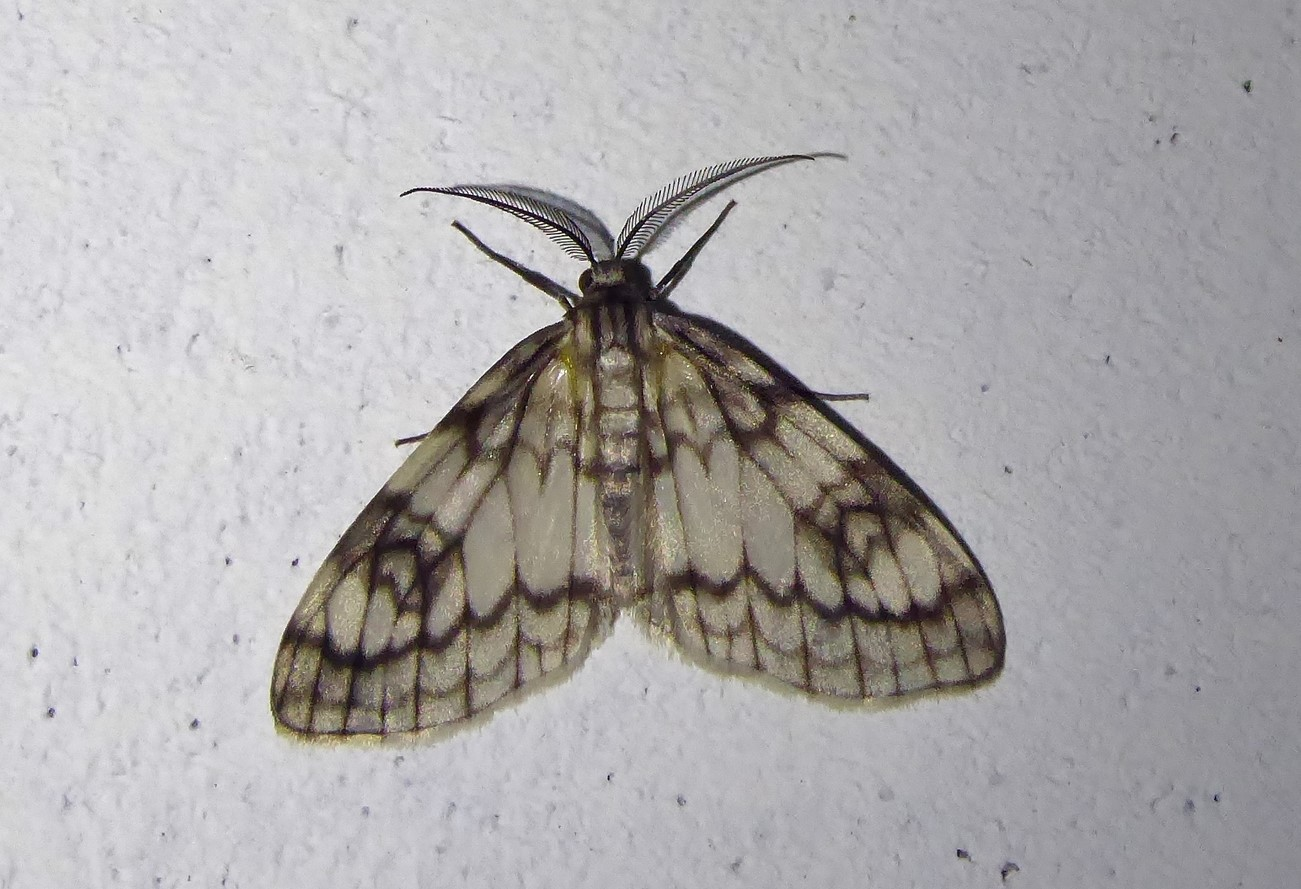 Fulgurodes spp. Species of insect in the genus Fulgurodes.